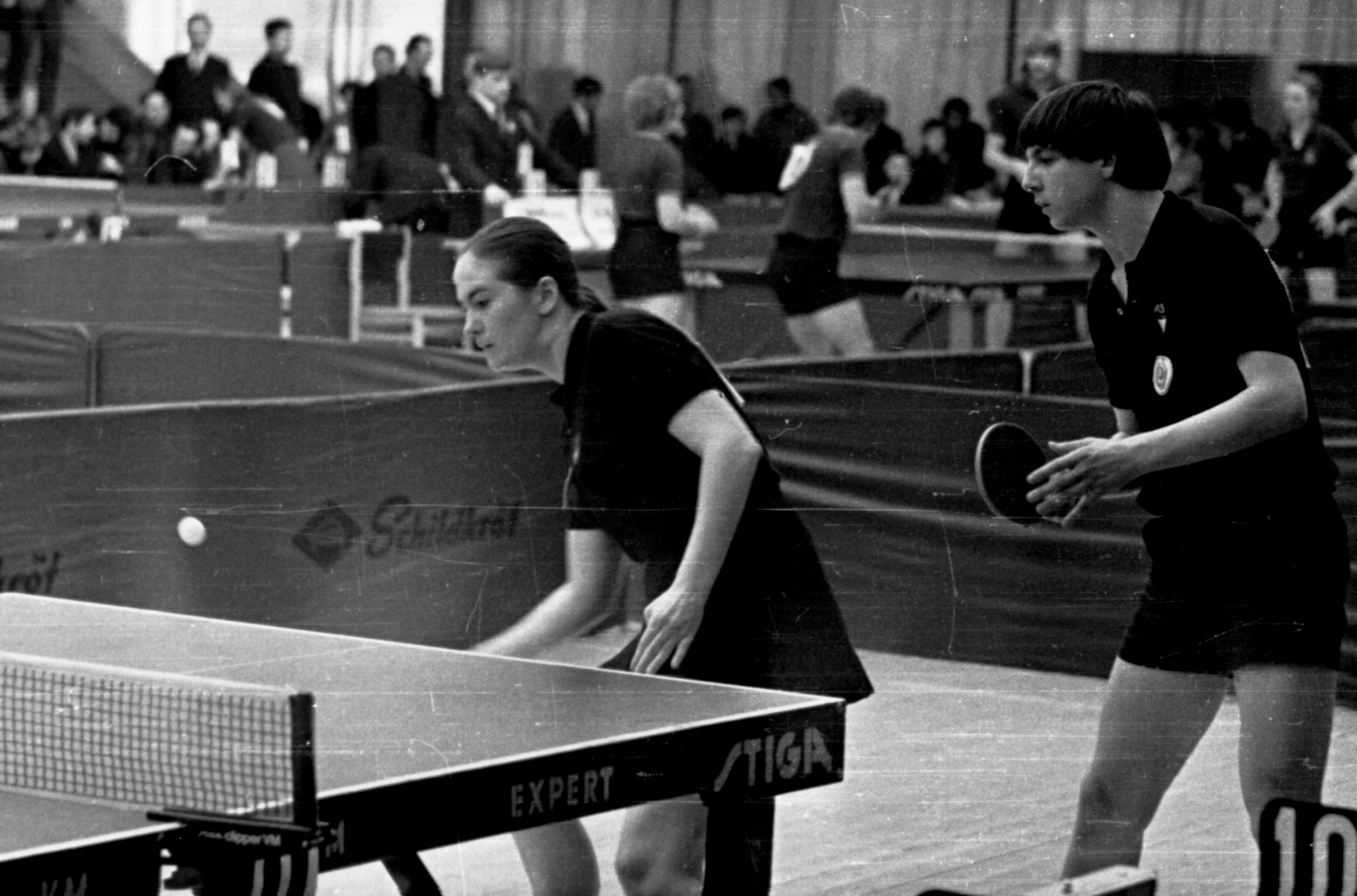 Svetlana Grinberg and Anatoly Strokatov in 1972